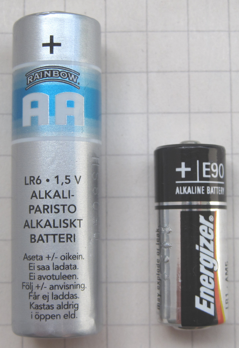 An N (LR1, 910A, Lady) size battery with an AA battery and 7mm grid for scale.